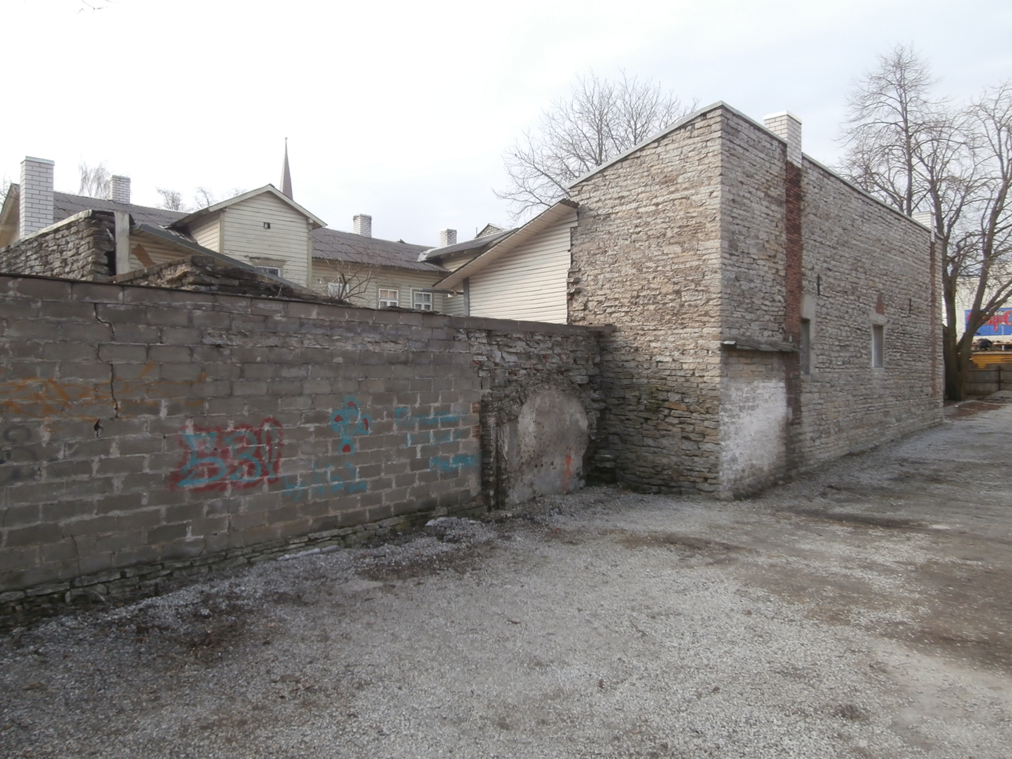 Limestone building Liivalaia 41/2 in Tallinn 15 April 2018 (buildings Liivalaia 41/3, Liivalaia 41/1 and Liivalaia 39 behind the wall)